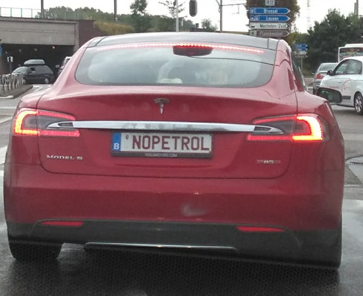 Energy transition petrol to electric